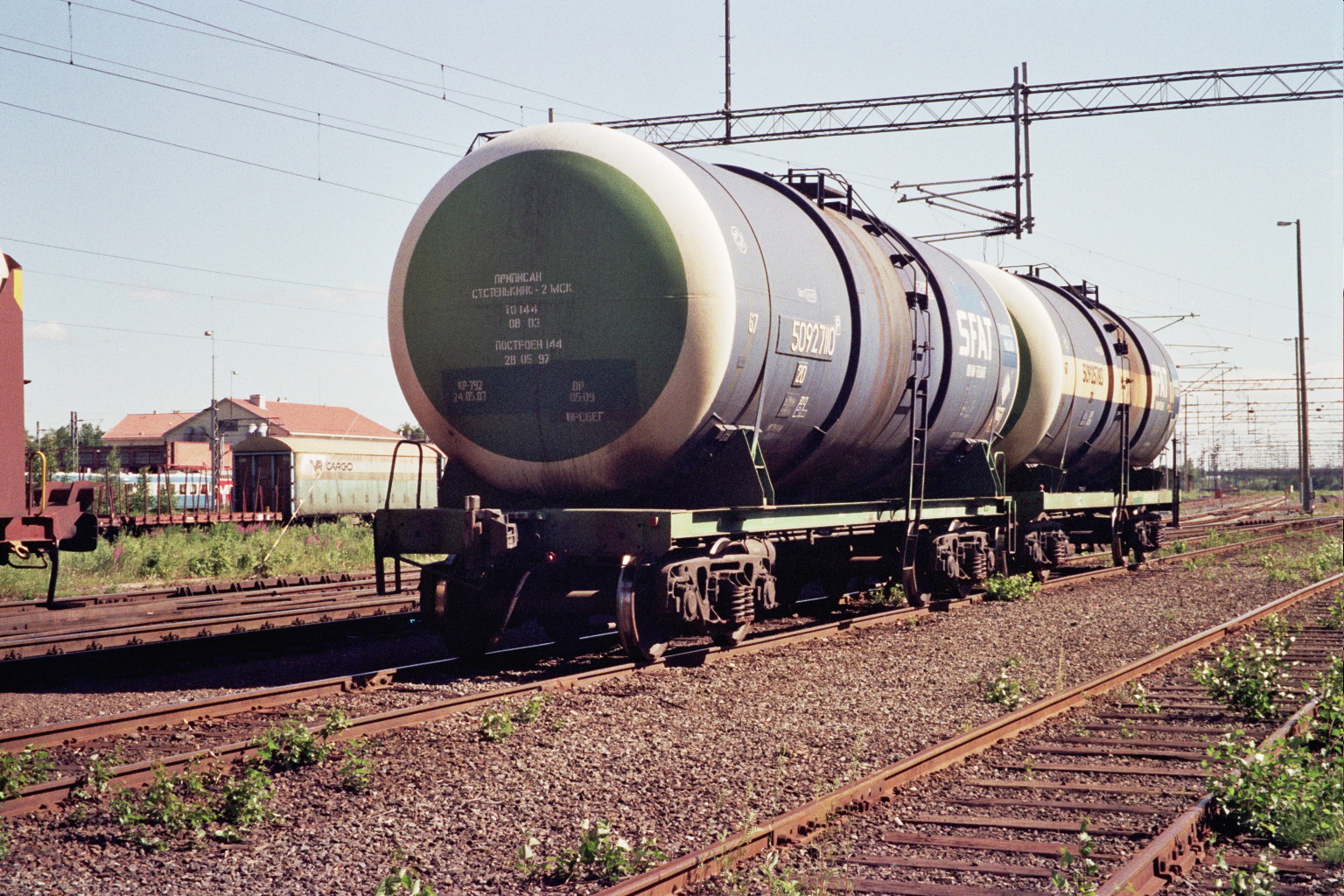 A couple of SFAT tank wagons in the VR freight yard in Oulu, Finland.